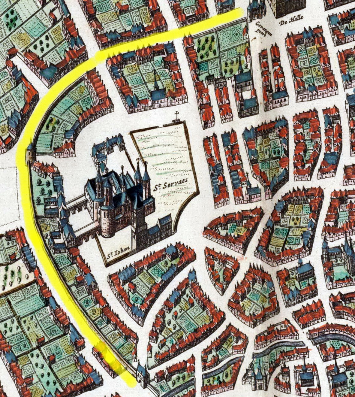 Maastricht, the Netherlands. Detail of a map of Maastricht from the Atlas van Loon, published by Blaeu (Amsterdam, 1652?), showing the center of town around Vrijthof. The curved line indicates the location of the first Medieval city wall.